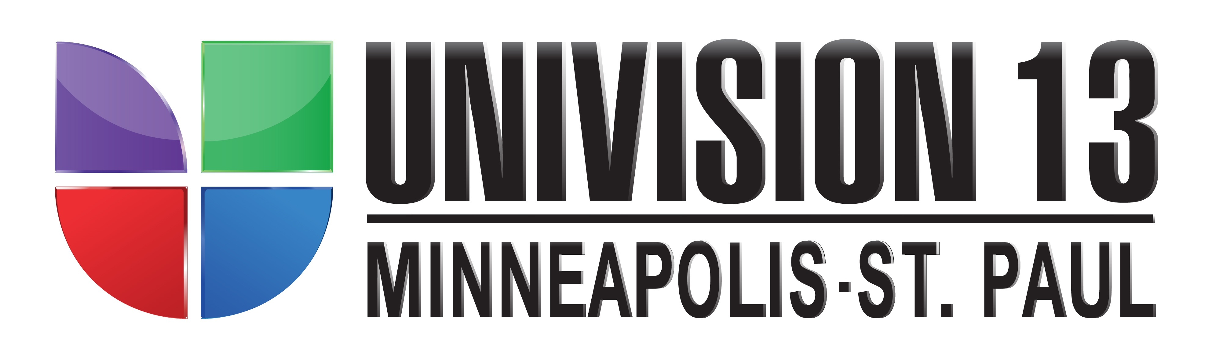 Univision Minneapolis - St. Paul Logo